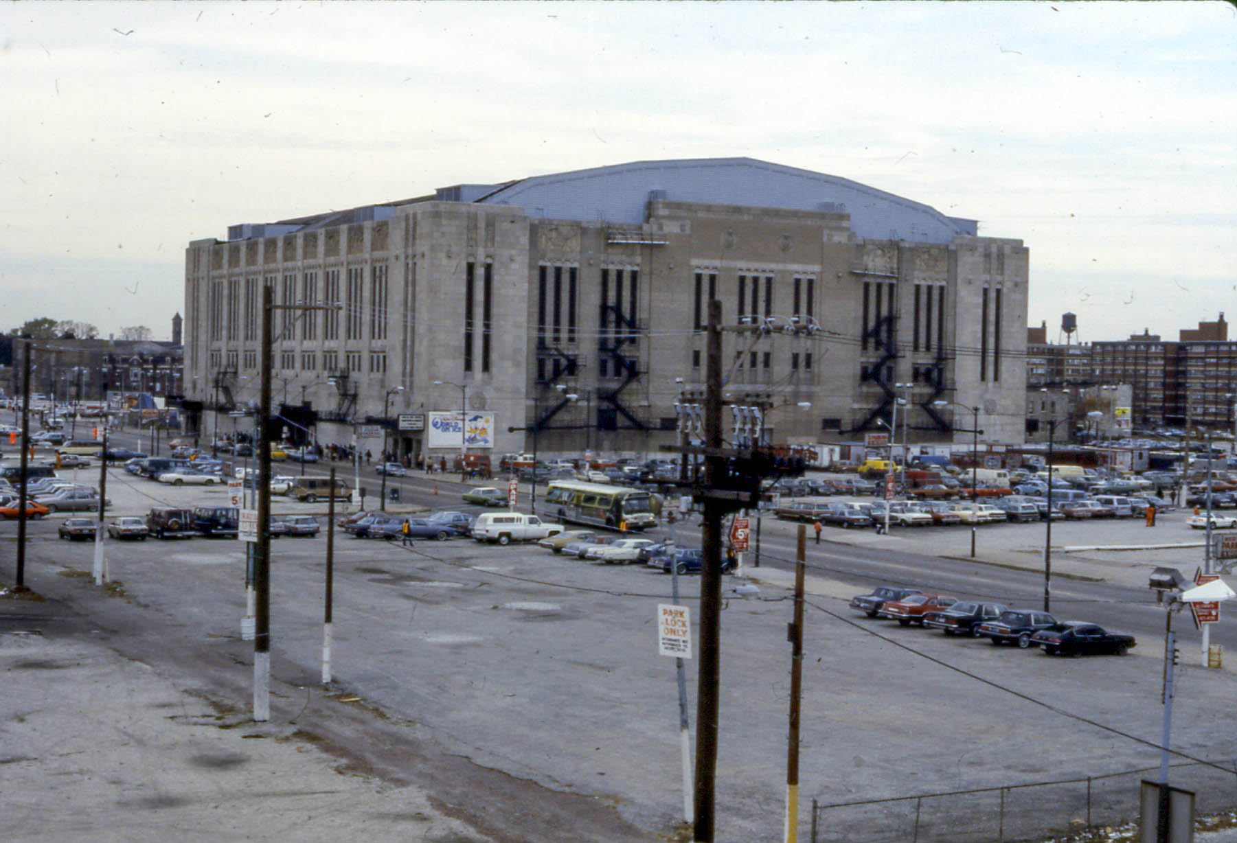 19841104 15 Chicago Stadium